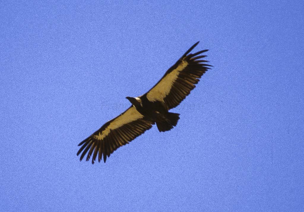 White-rumped Vulture - Rantambhore - India_860047